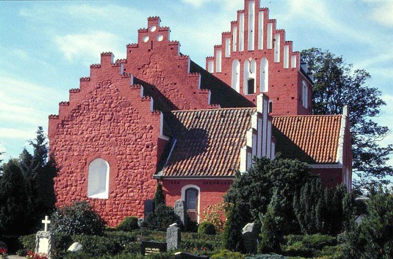 Bregninge Kirke (church) in Kalundborg Kommune